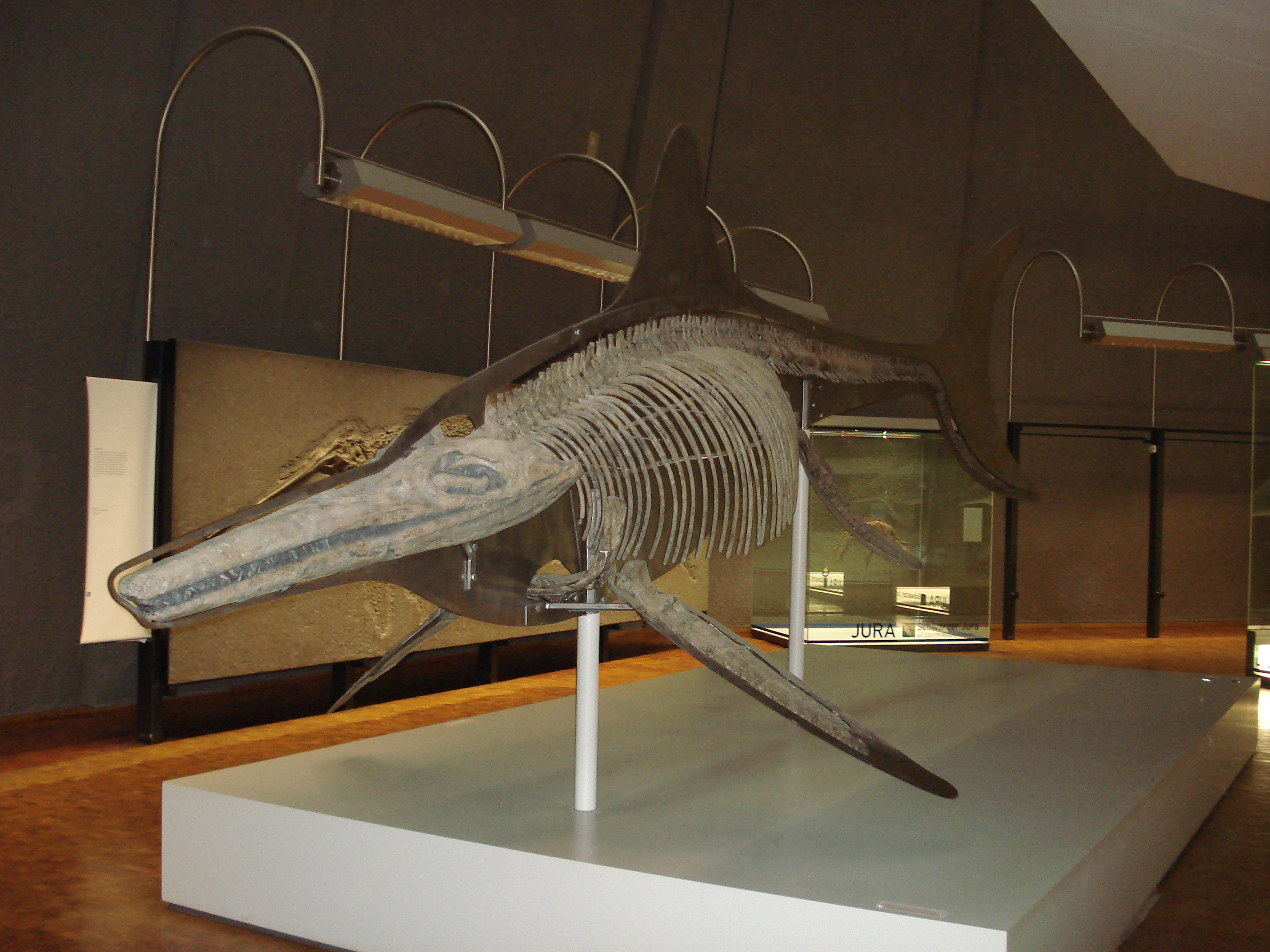 fossil of temnodontosaurus